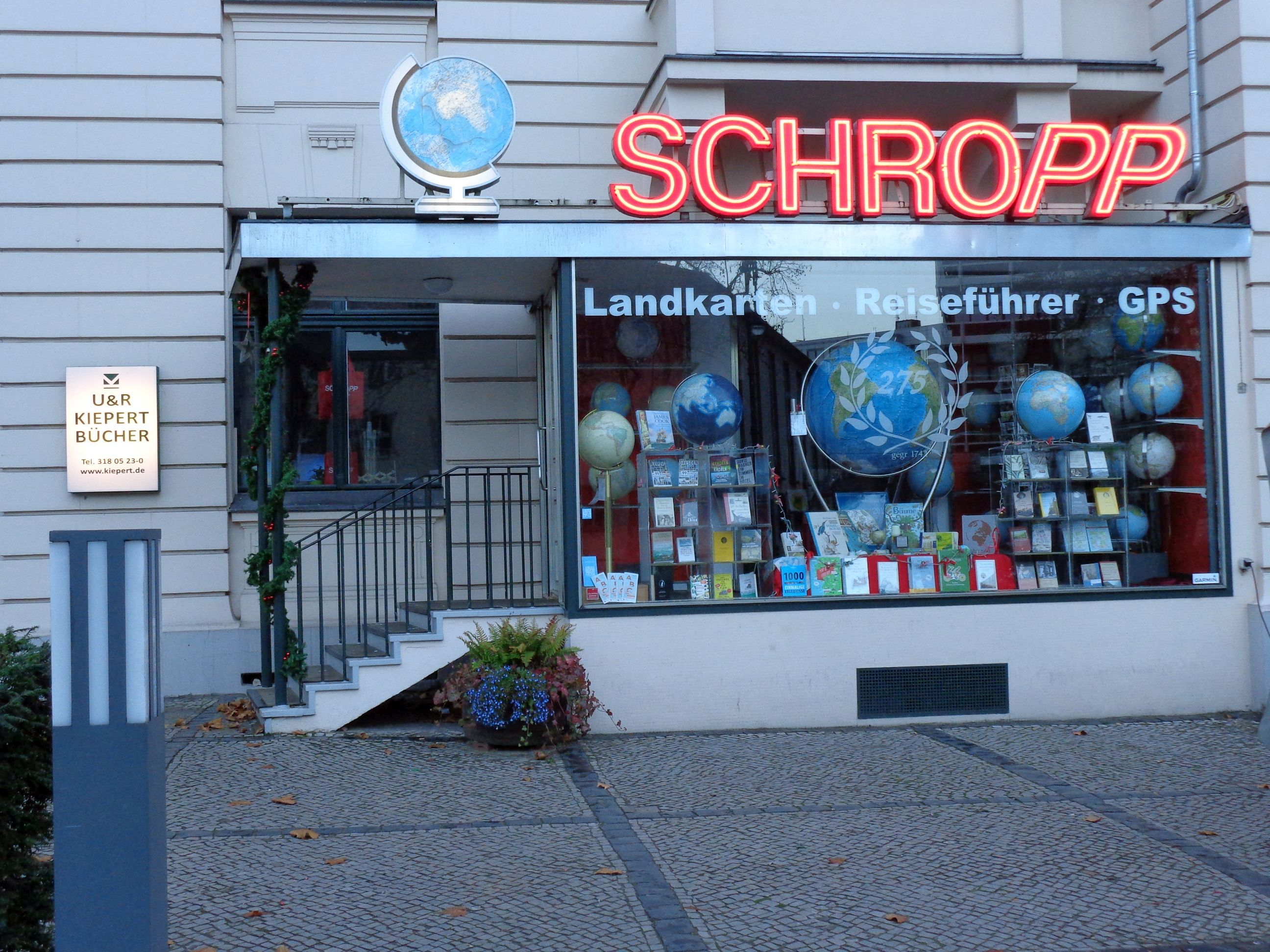 Schropp shop for maps and globes in Berlin